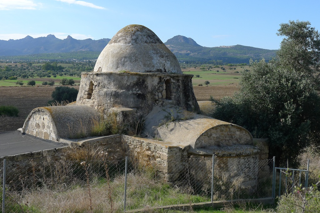 Panagia Kyra, Cyprus.